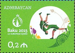 Baku 2015. First European Games.(2nd edition) N 1221 - 60 qapik – Sambo